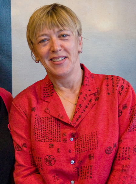 Jody Williams at a Hudson Union Society event in May 2010.